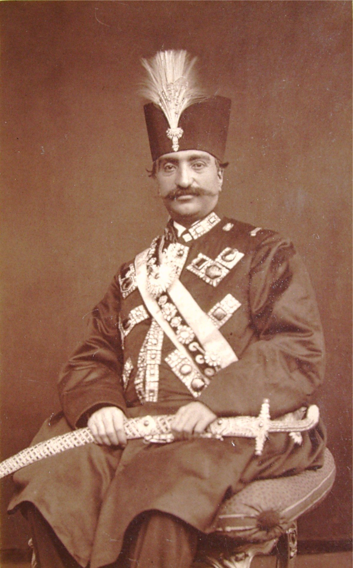 Naser al-Din Shah Qajar (1831-1896), Shah from Persia.